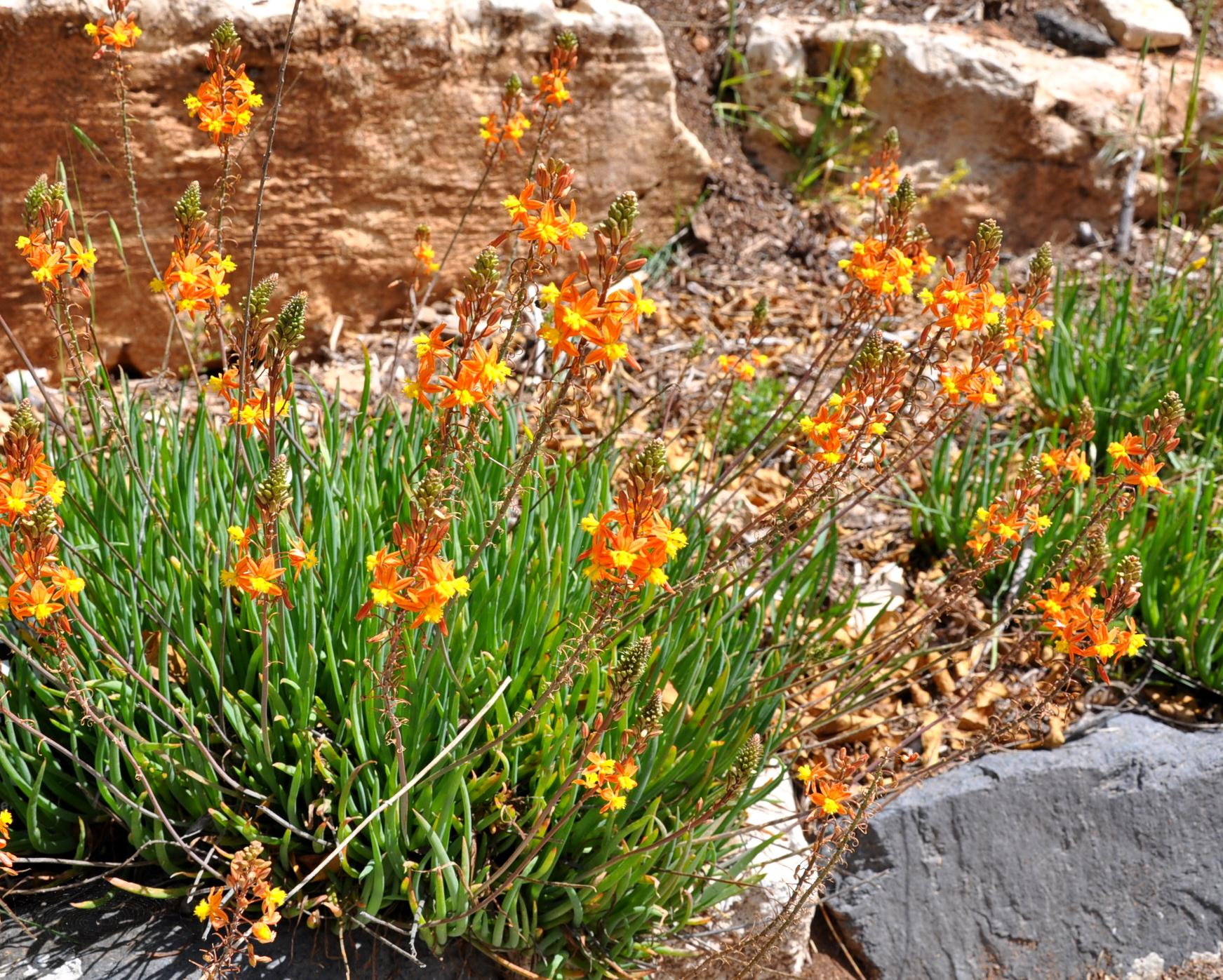 Taken in Jerusalem